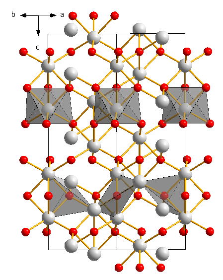 Crystal structure of Aluminium oxide